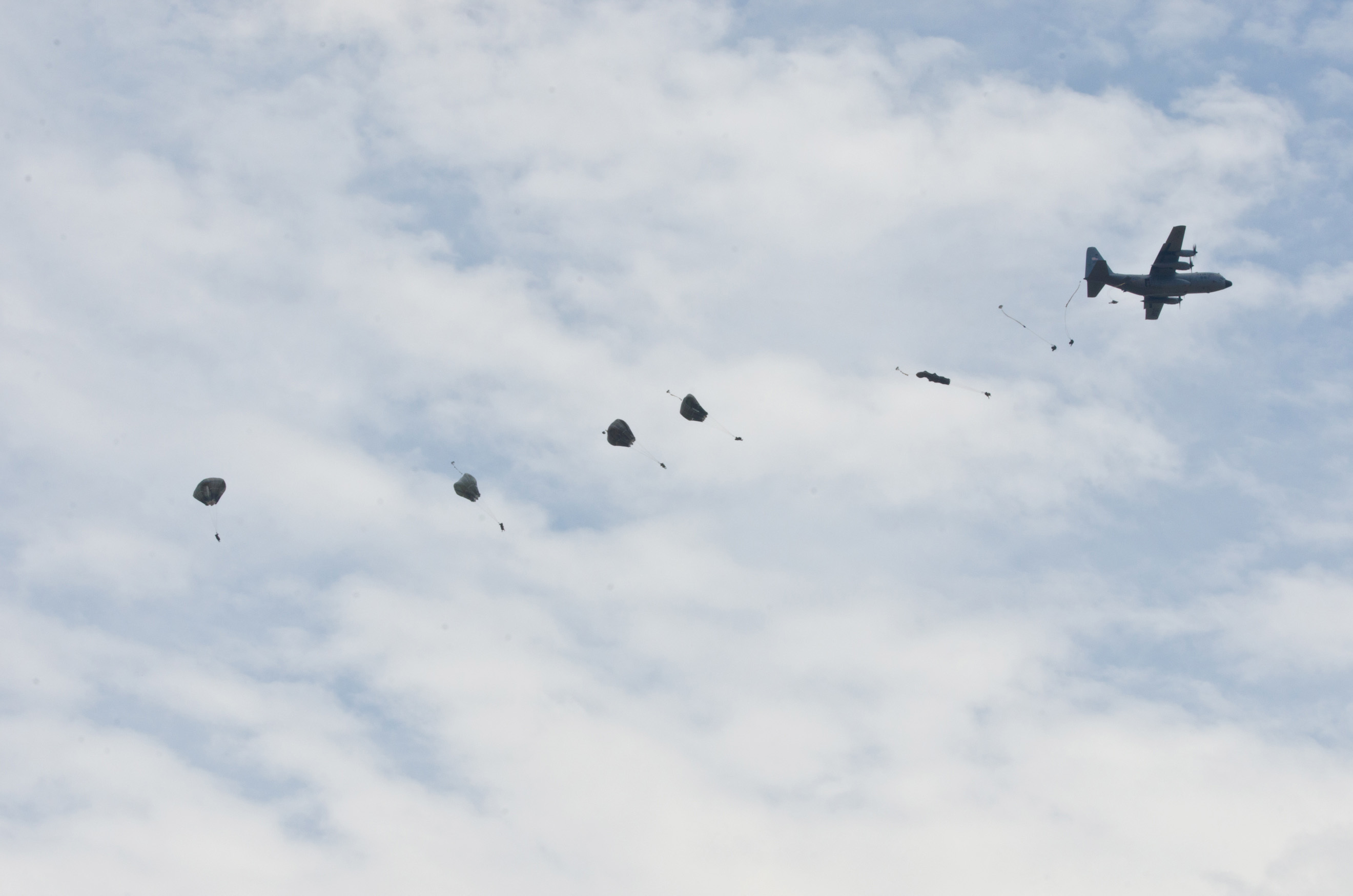 U.S. Army Reserve Soldiers take part in airborne operations with active duty Soldiers as part of a new multi-component program, integrating Reserve Soldiers with the 18th Airborne Corps and 101st Airborne Division at Sicily drop zone, Fort Bragg, N.C., June 2, 2015. The multi-component program allows the Army Reserve Soldiers to not only train with their active duty counterparts, but take on slots within the unit. (U.S. Army photo by Brian Godette/Released)